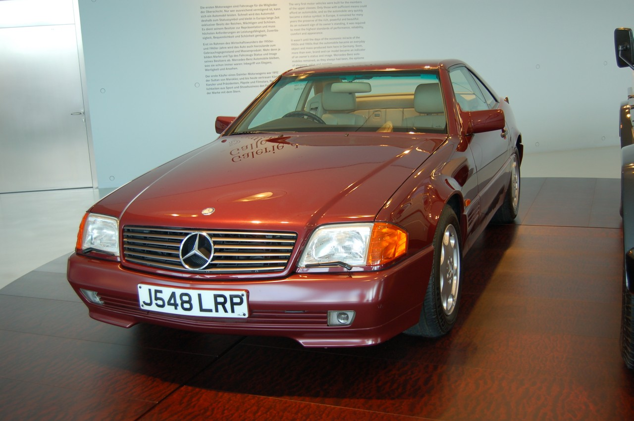 Princess Diana's Mercedes 500SL